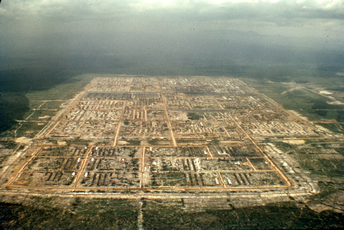 Bear Cat cantonment of the 9th Infantry Division. In the foreground is the cantonment of the Thai Volunteer Regiment which occupied the area during September. US Engineer units cleared the area and constructed the roads. All of the vertical construction is being accomplished by the Thais.